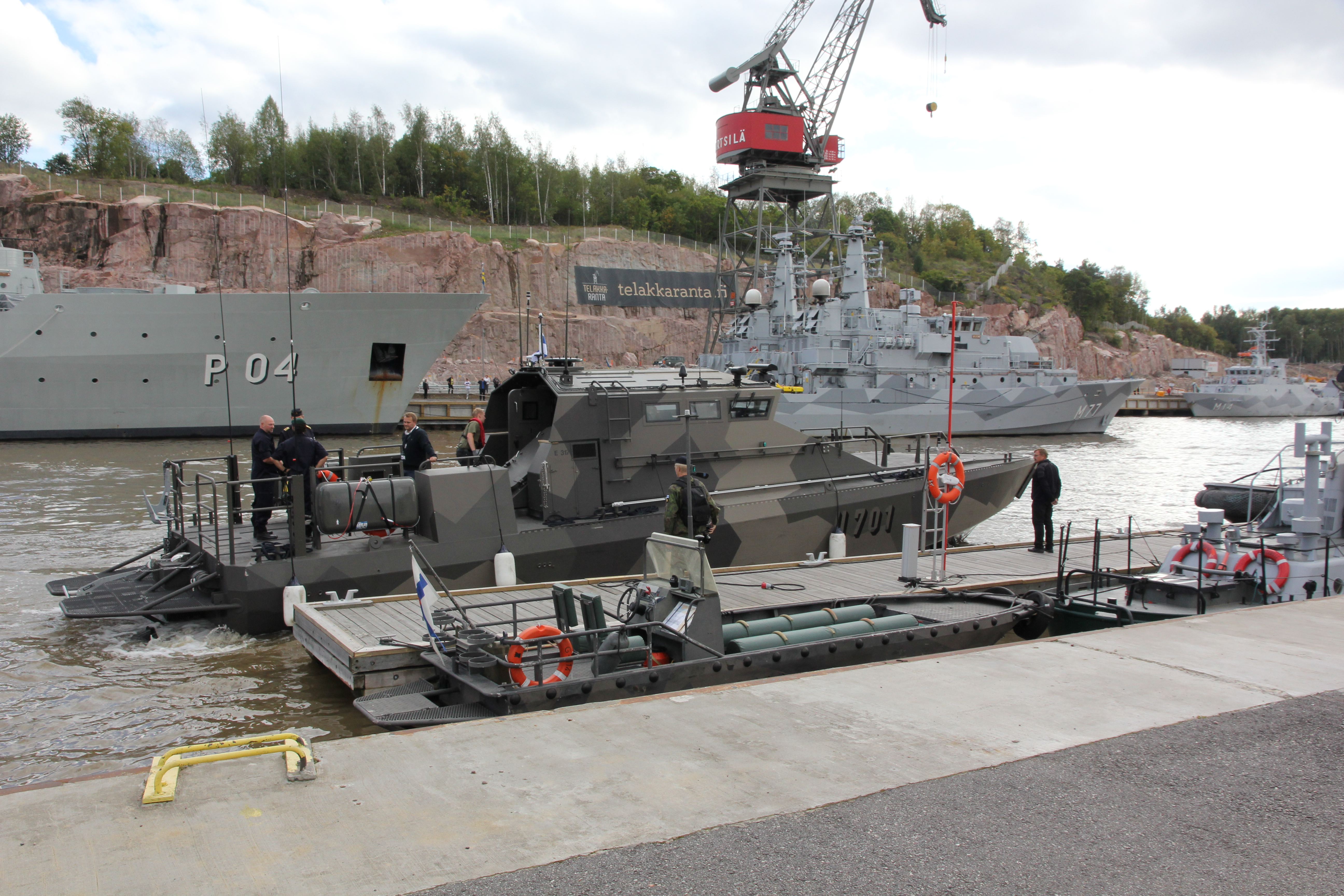 Finnish landing craft U701 in Aura river in Turku during the Northern Coasts 2014 exercise public pre sail event. This vessel is a brand new lead ship of the U700 Jehu class. G-class landing craft at front, Swedish minehunter M77 Ulvön on the background.